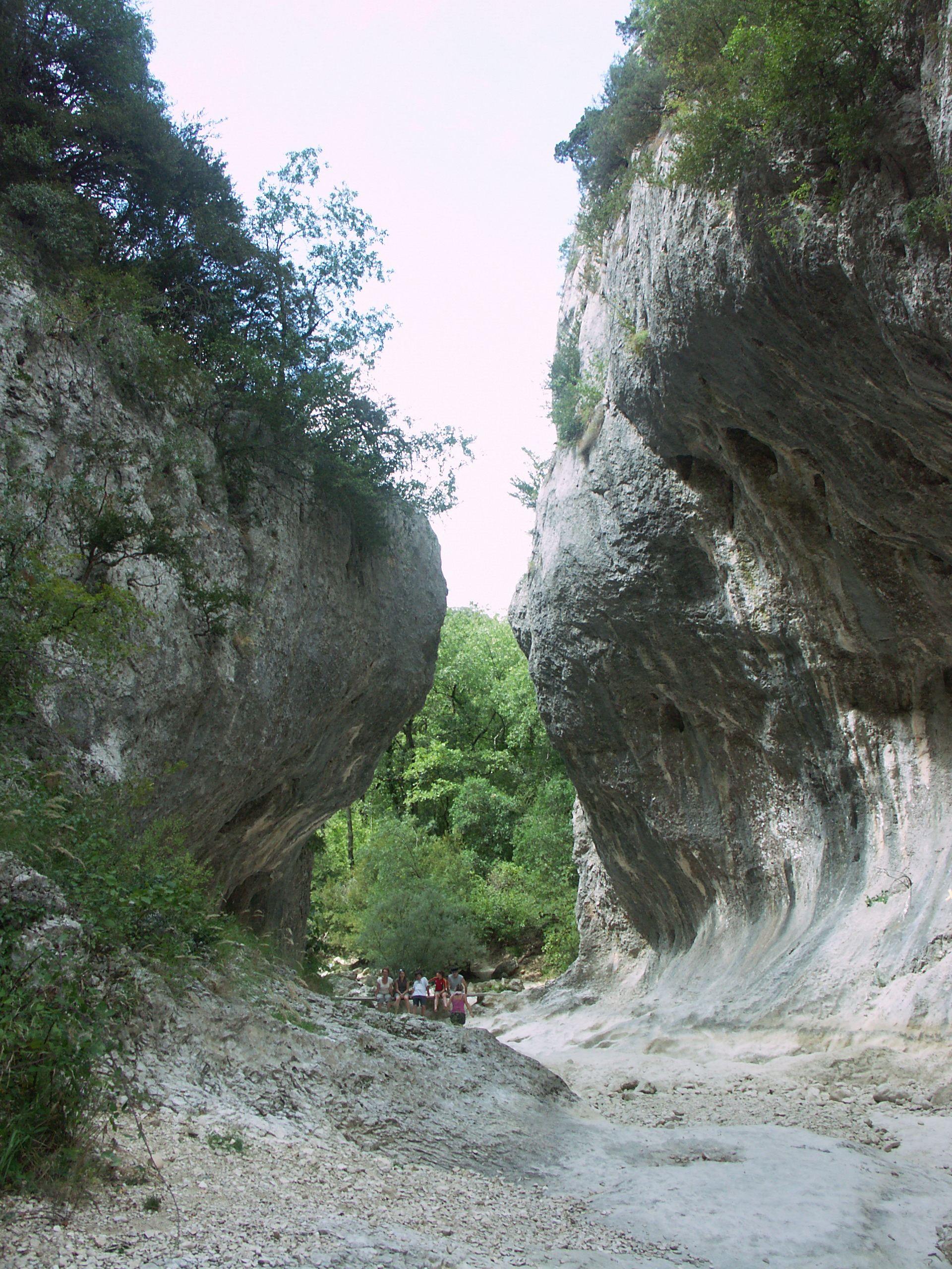 Lussan: Les Concluses